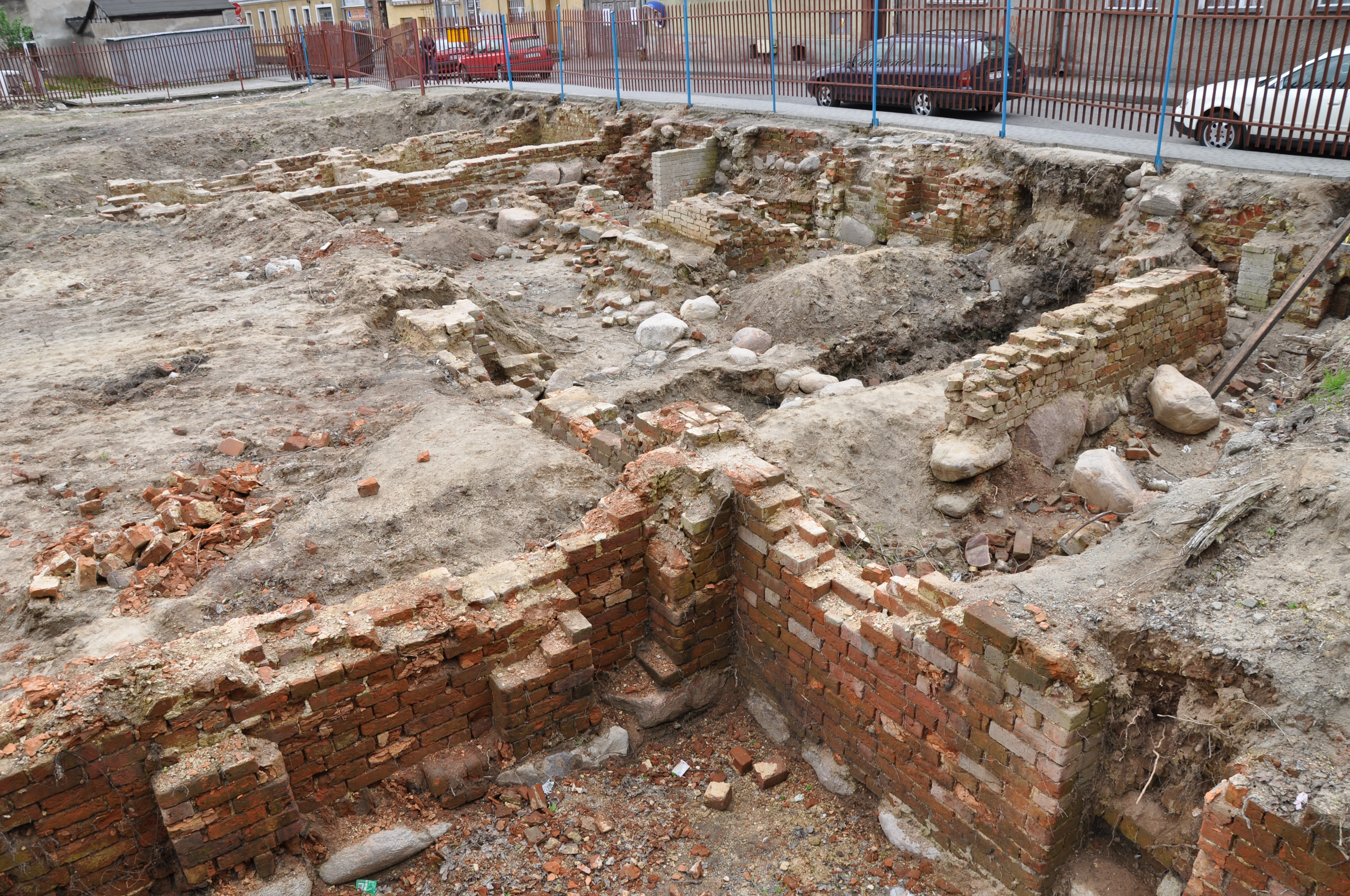 Słowackiego i Kopernika Streets, Trzebiatów, Poland